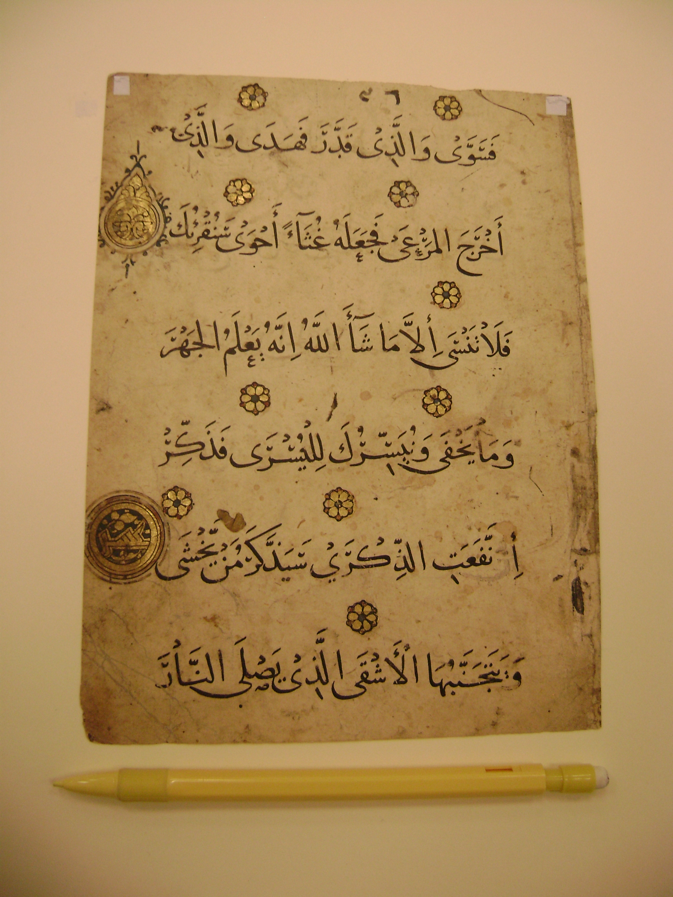 Quran Leaf from Mamluk Sultanate